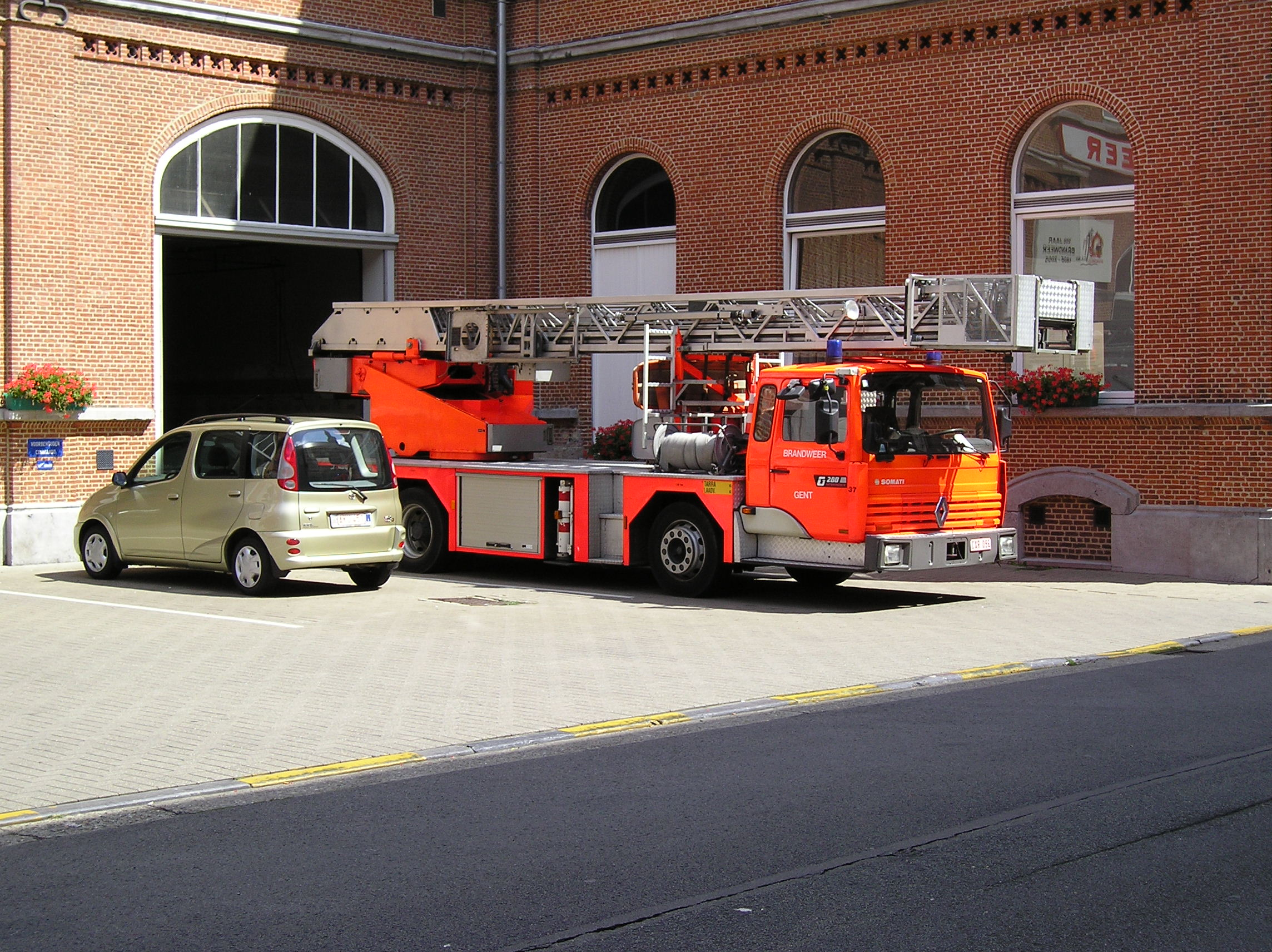 Fire engine Renault G280 in Ghent, Belgium